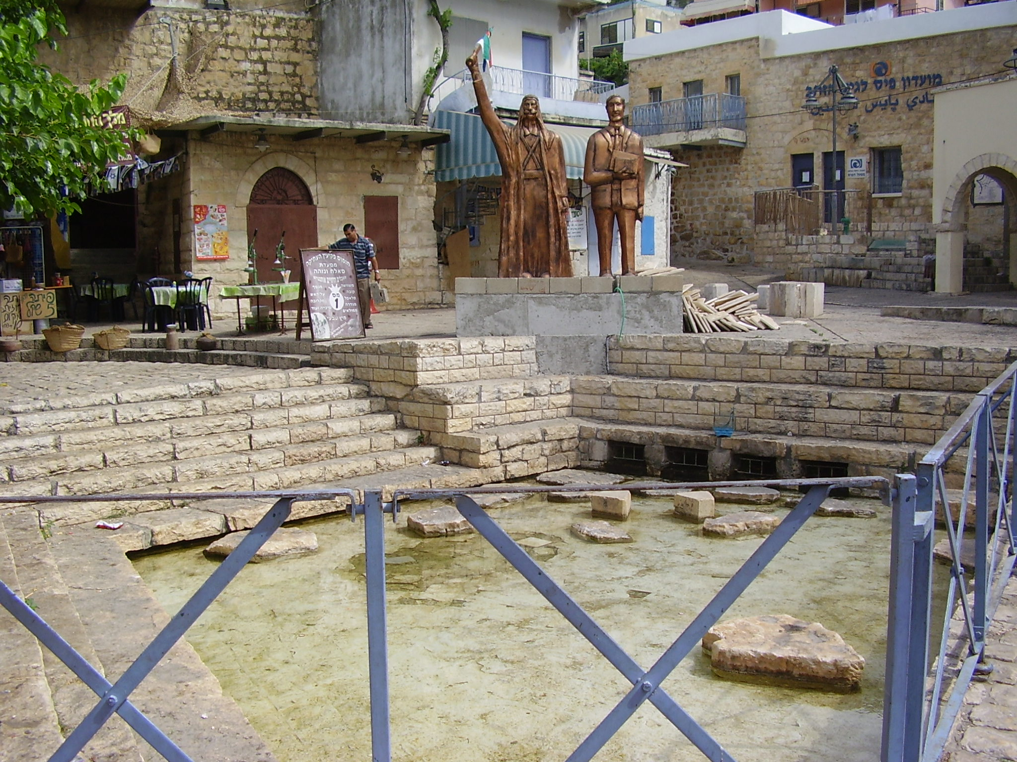 Spring square in the predominantly Druze village of Peki'in in the Upper Galilee. In the middle are statues of prominent Druze leaders Sultan Pasha al-Atrash (left) and Kamal Jumblatt (right).